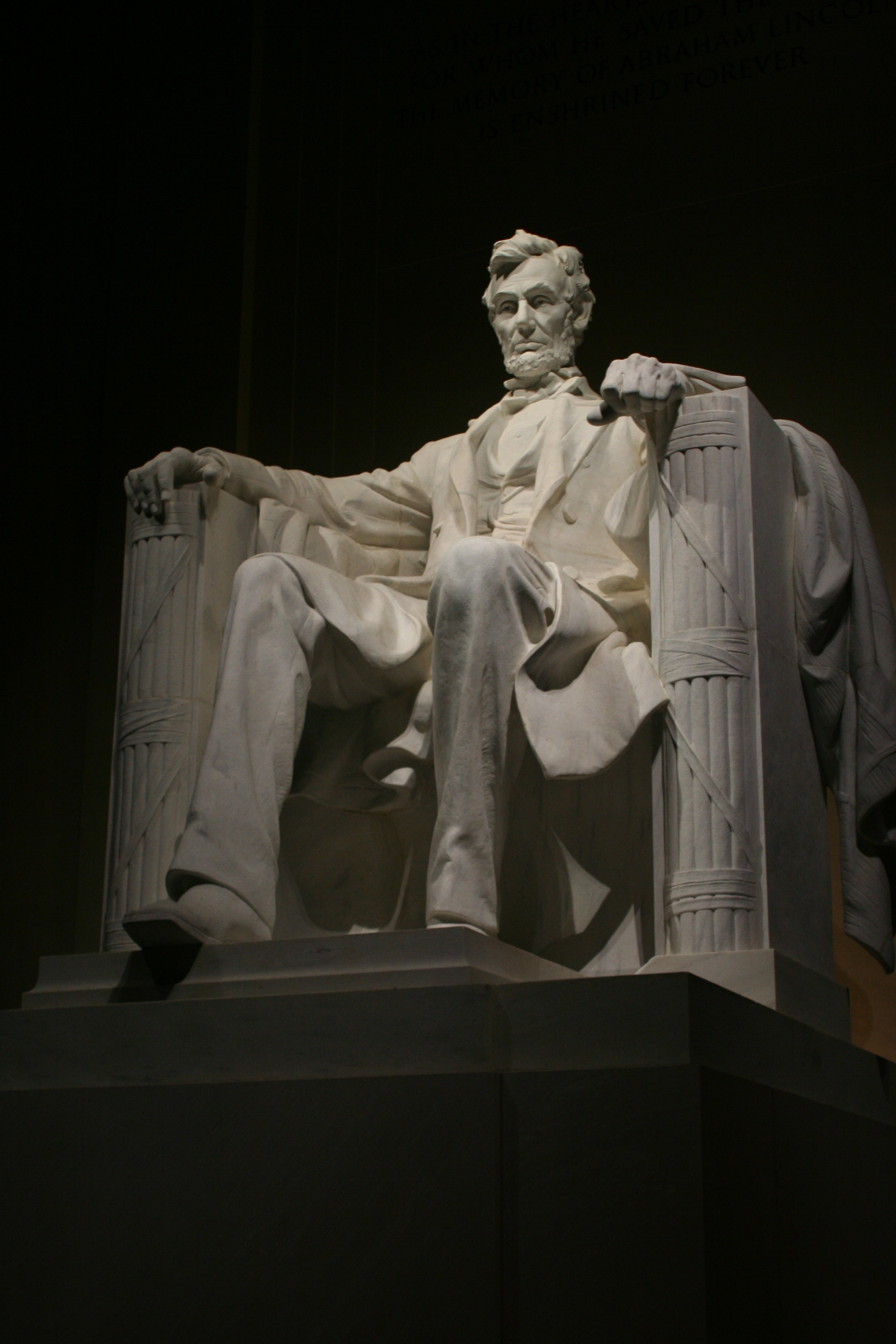 Lincoln Memorial interior statue at night